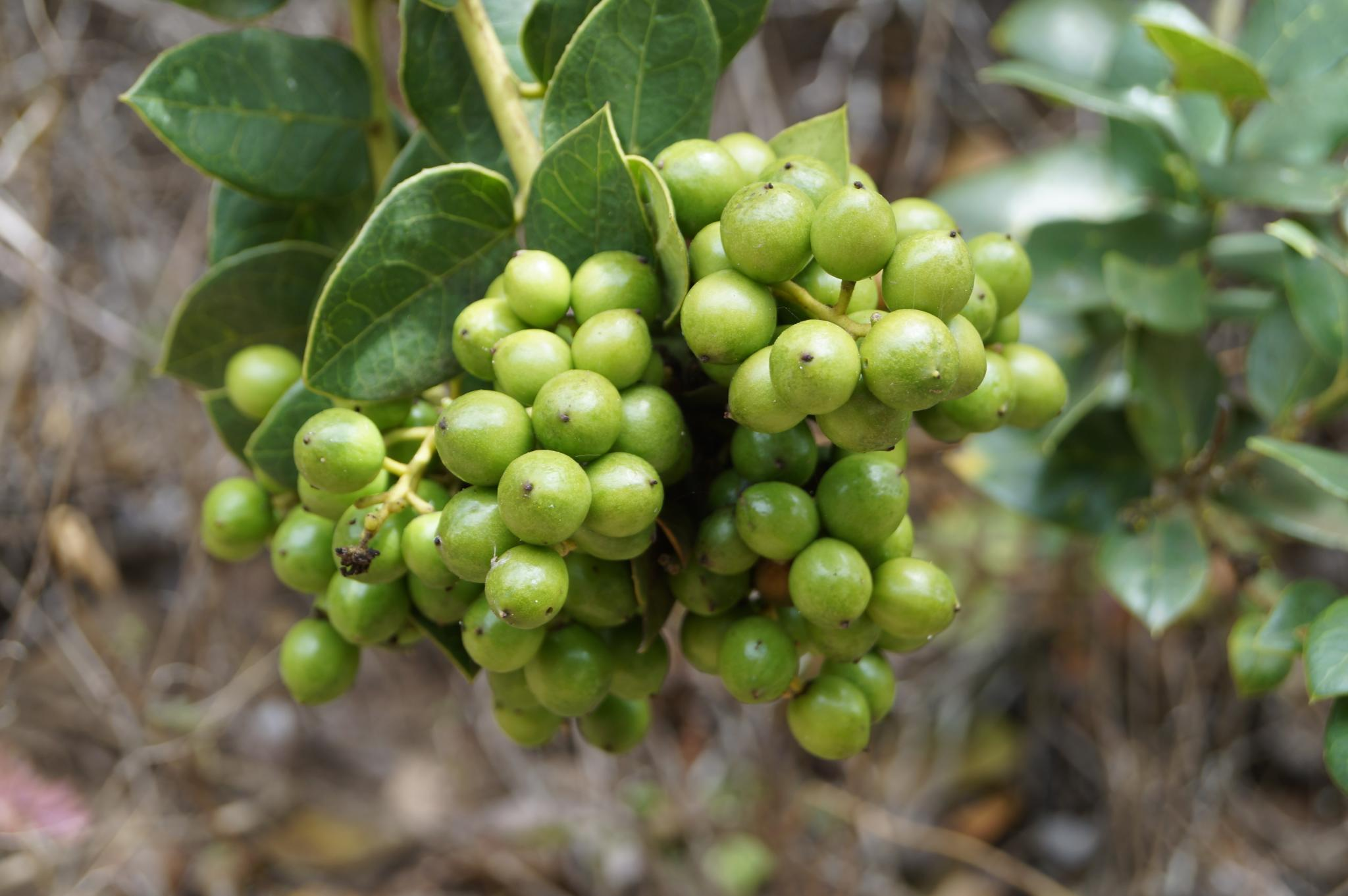 Citronella mucronata, Los Vilos, Chile